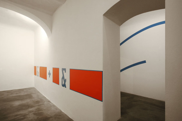 Lawrence Weiner Site Specific Installation for non profit artist run space Base / Progetti per l'arte / Firenze / Italy